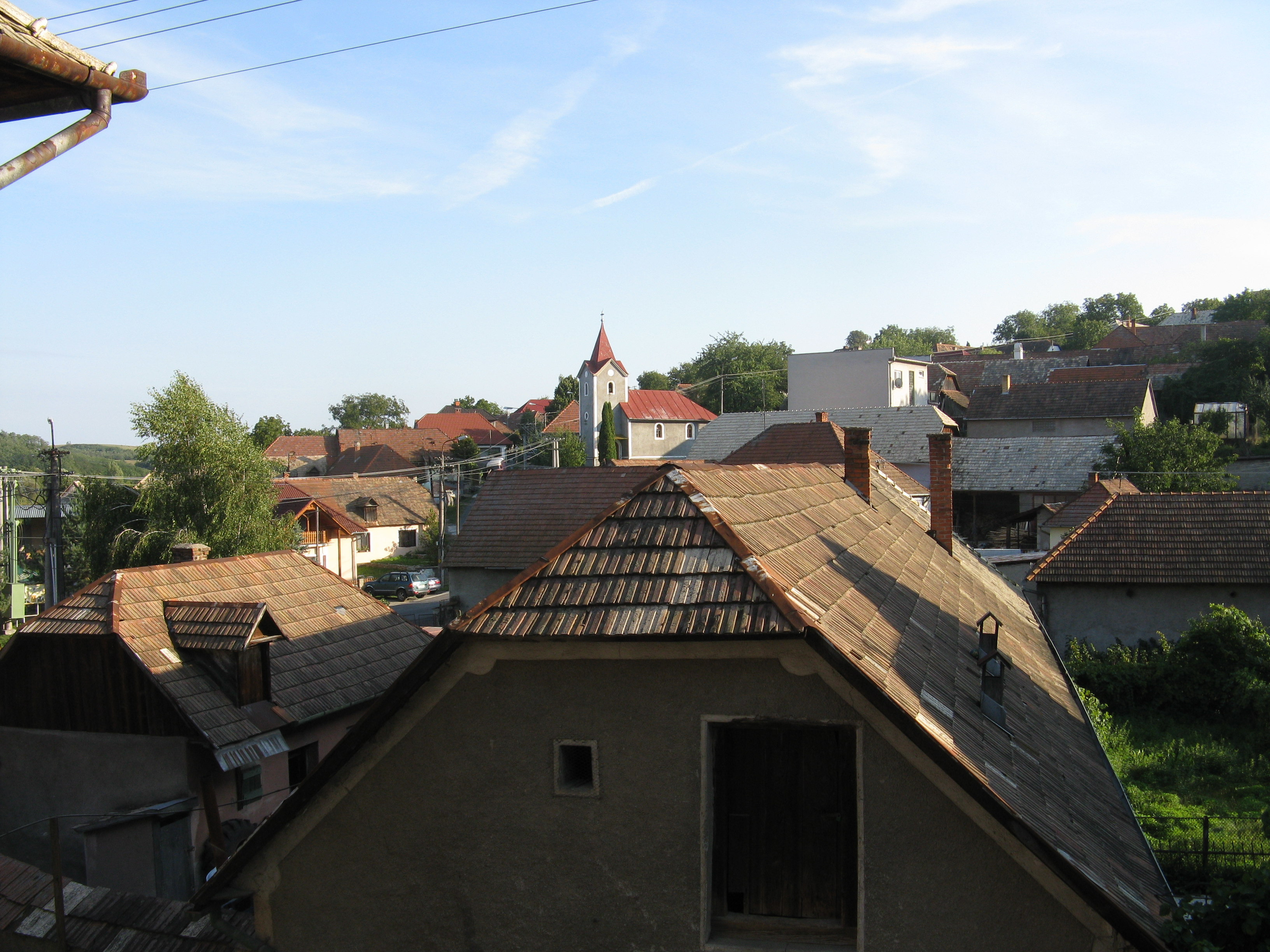 Village Brhlovce